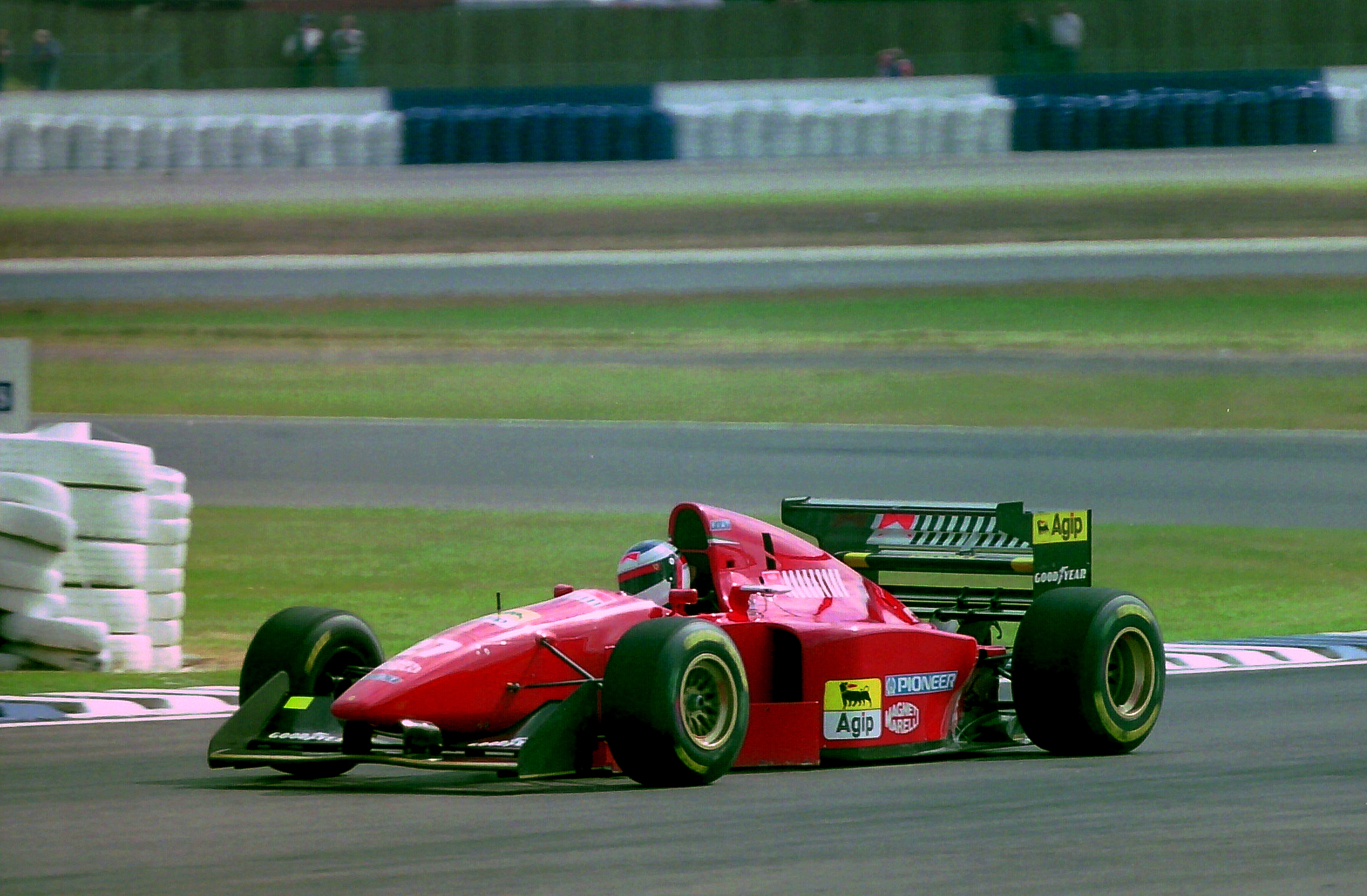 Jean Alesi - Ferrari 412T1B at the 1994 British Grand Prix